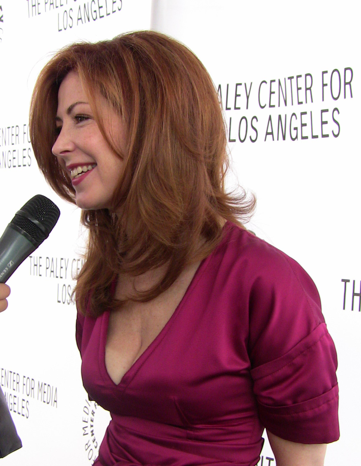 Actress Dana Delany at Desperate Housewives Paley Fest, William S. Paley Center, Beverly Hills, California